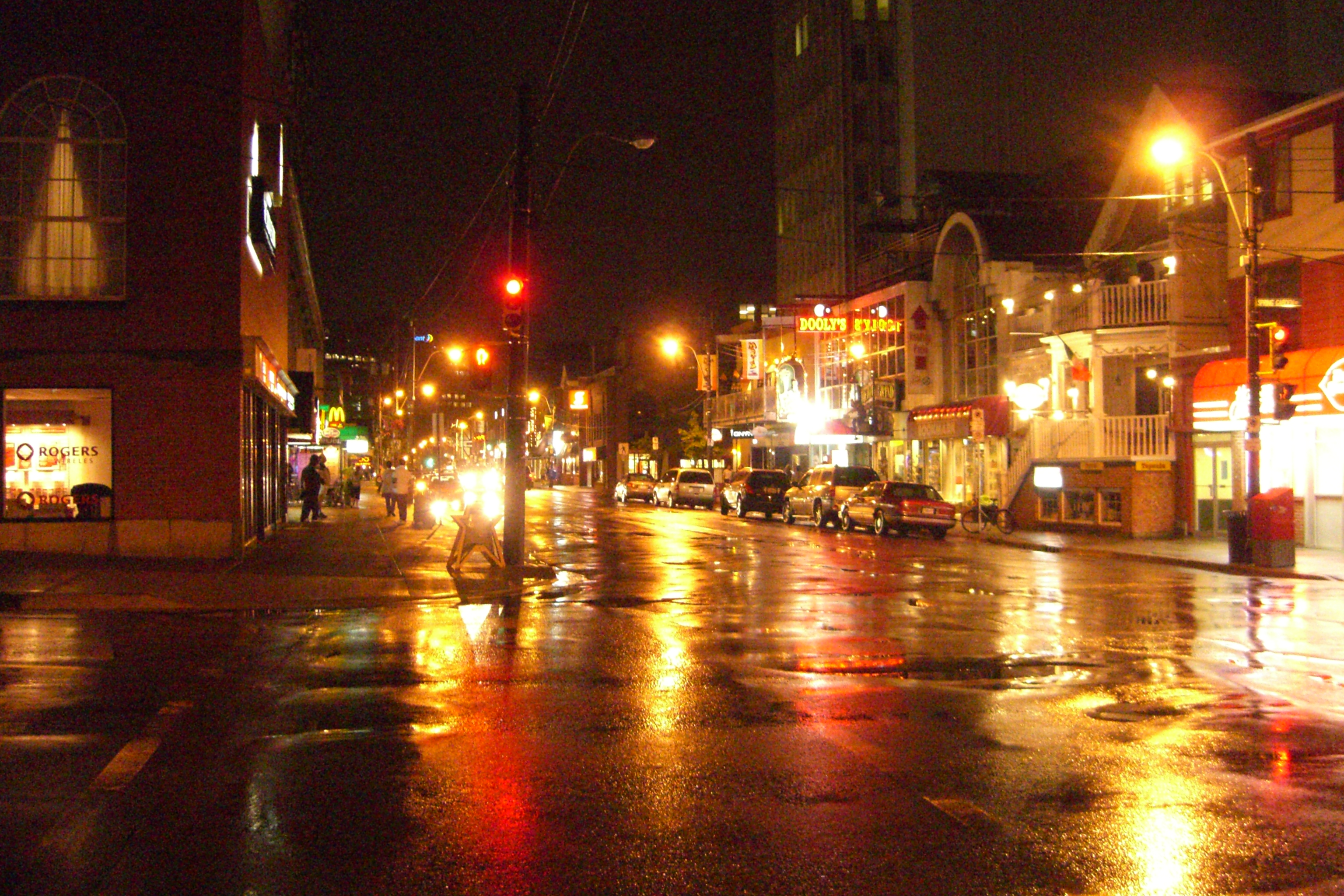 Part of Spring Garden Road in Halifax. Self-made.